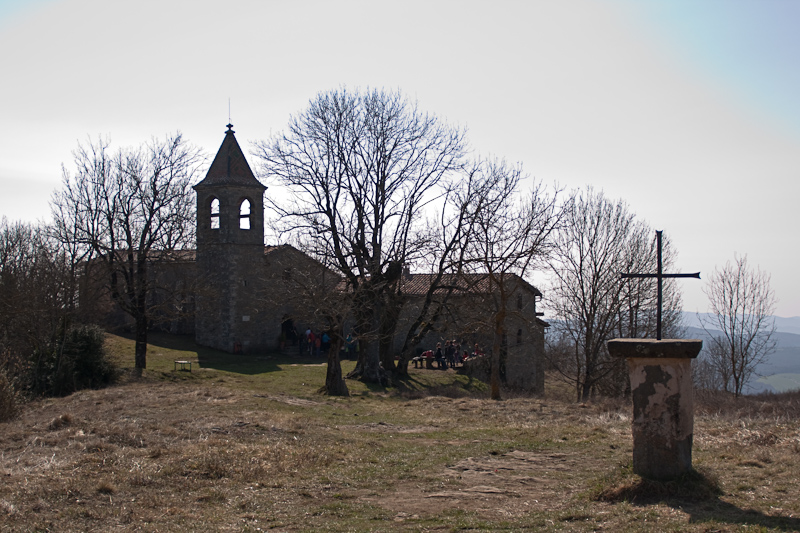 Cabrera